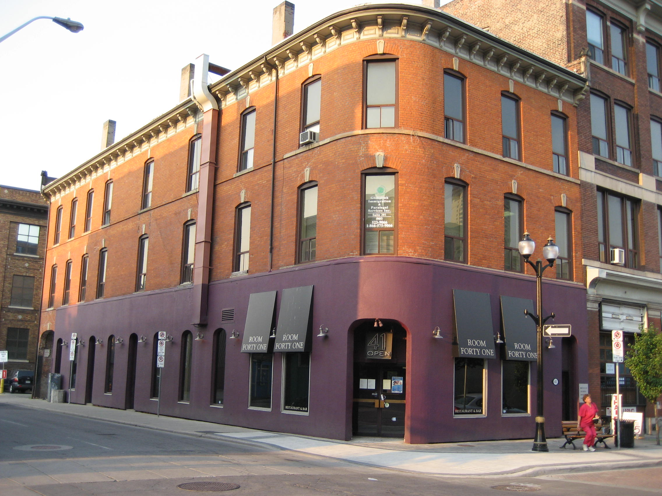 King William Street, Hamilton, Ontario